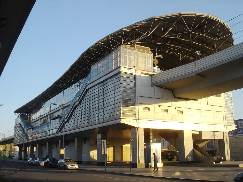 TEDA Station (JINBIN LINE)